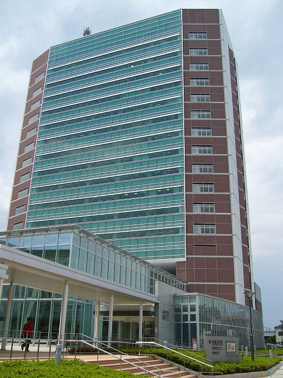 Suzuka City Hall in Mie Prefecture, Japan